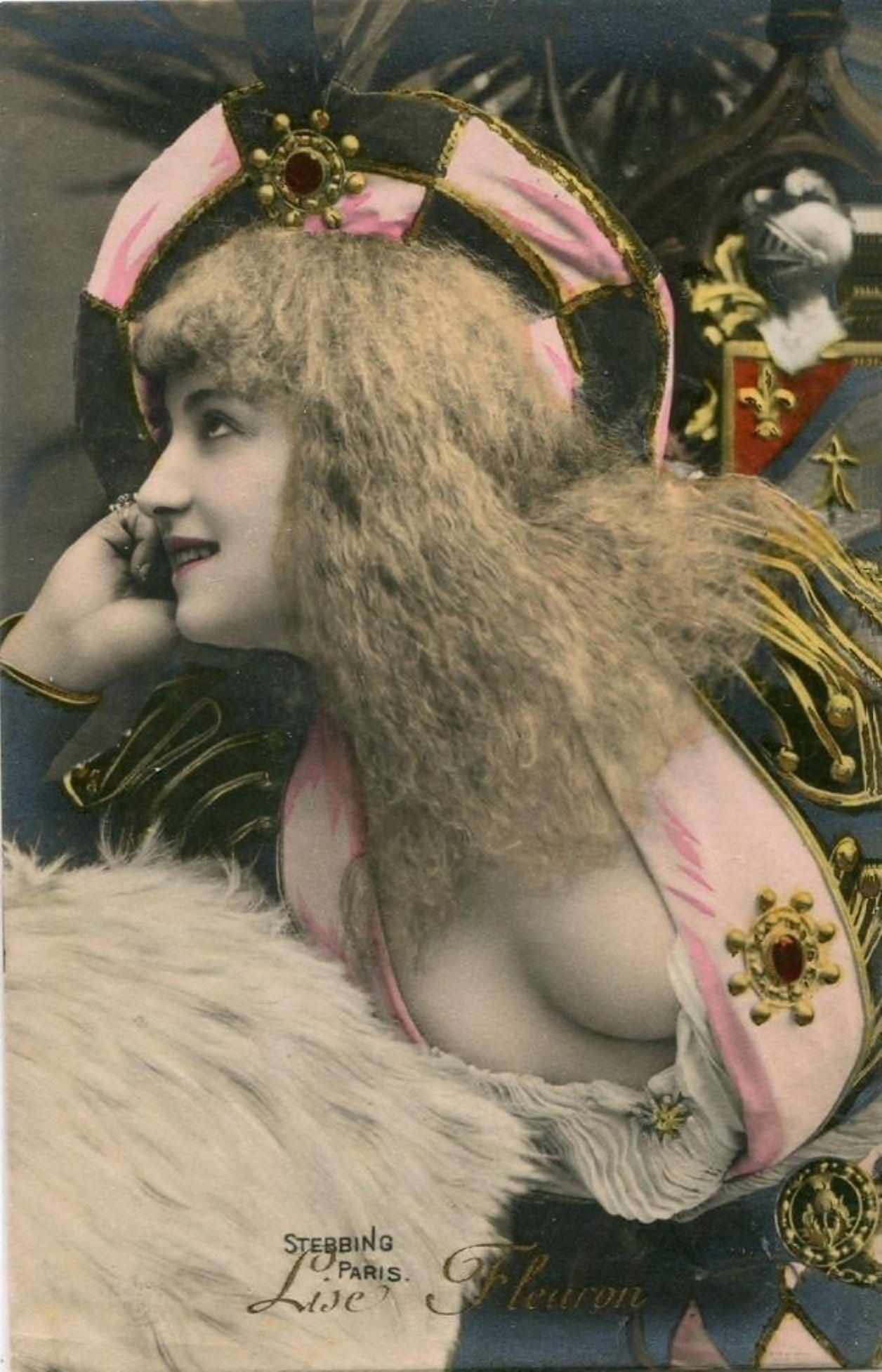 Portrait of Lise Fleuron by photographer Édouard Stebbing. Lise Fleuron, pseudonym of Marguerite Rauscher, was a French actress during the Belle Époque. She was born in Paris in the 6th arrondissement on 1 December 1874 and died in Enghien-les-Bains on 27 February 1960. She married Edmond Albert Bouchaud known as Dufleuve, French author and singer, in Paris on 1 October 1908 (9th arrondissement). Lise Fleuron is therefore the sister-in-law of Emélie Marie Bouchaud, known as Polaire, singer and French actress.